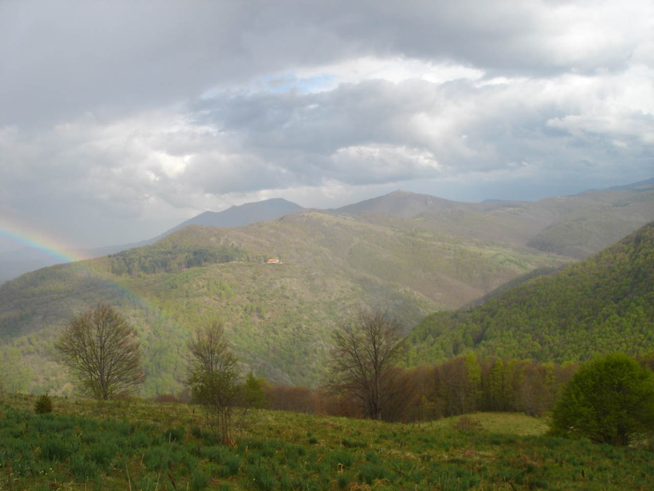 Mumdzica mountain on Mokra Massif, Macedonia